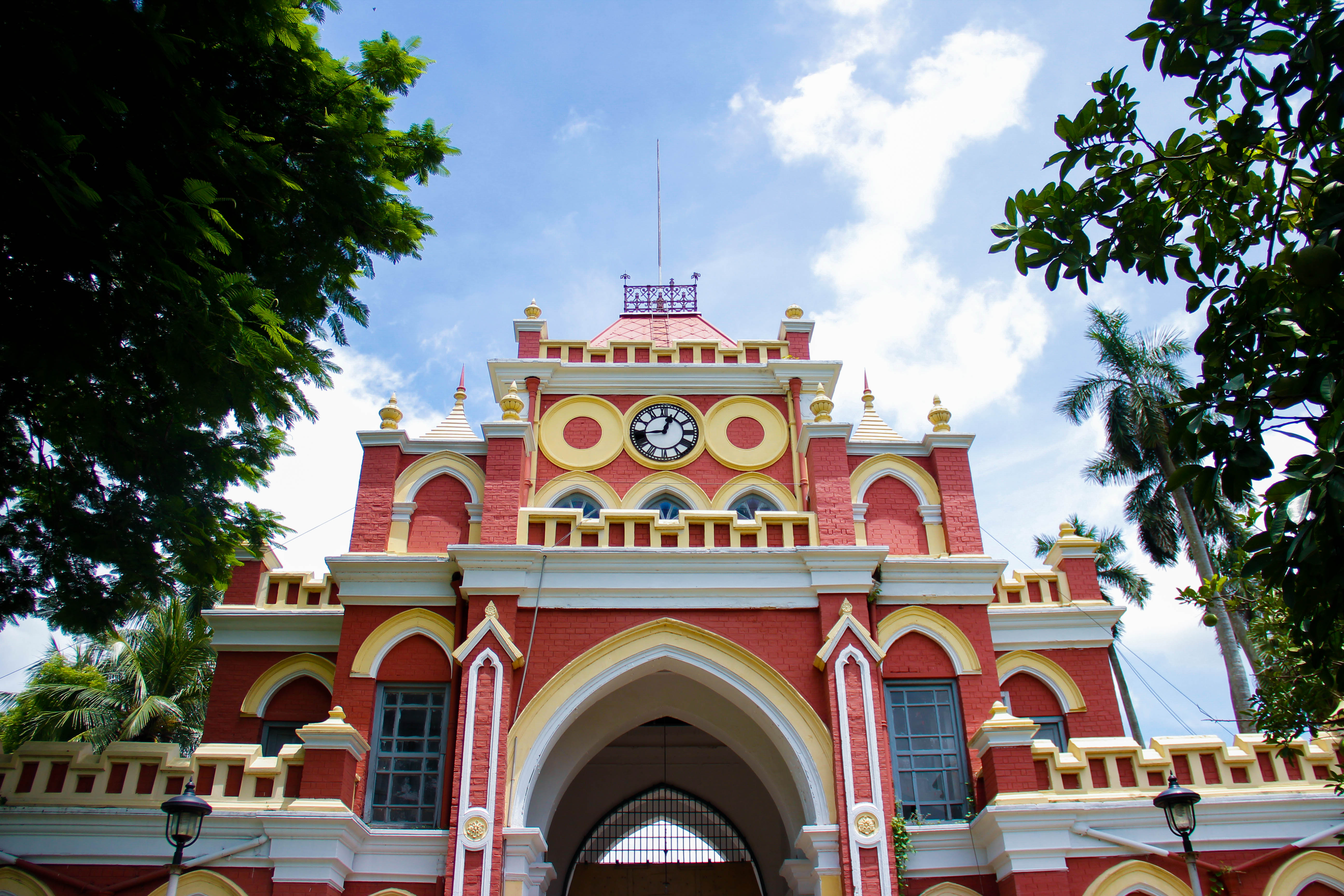 Uttara Gonobhaban, a formerly royal palace in Natore, Bangladesh.